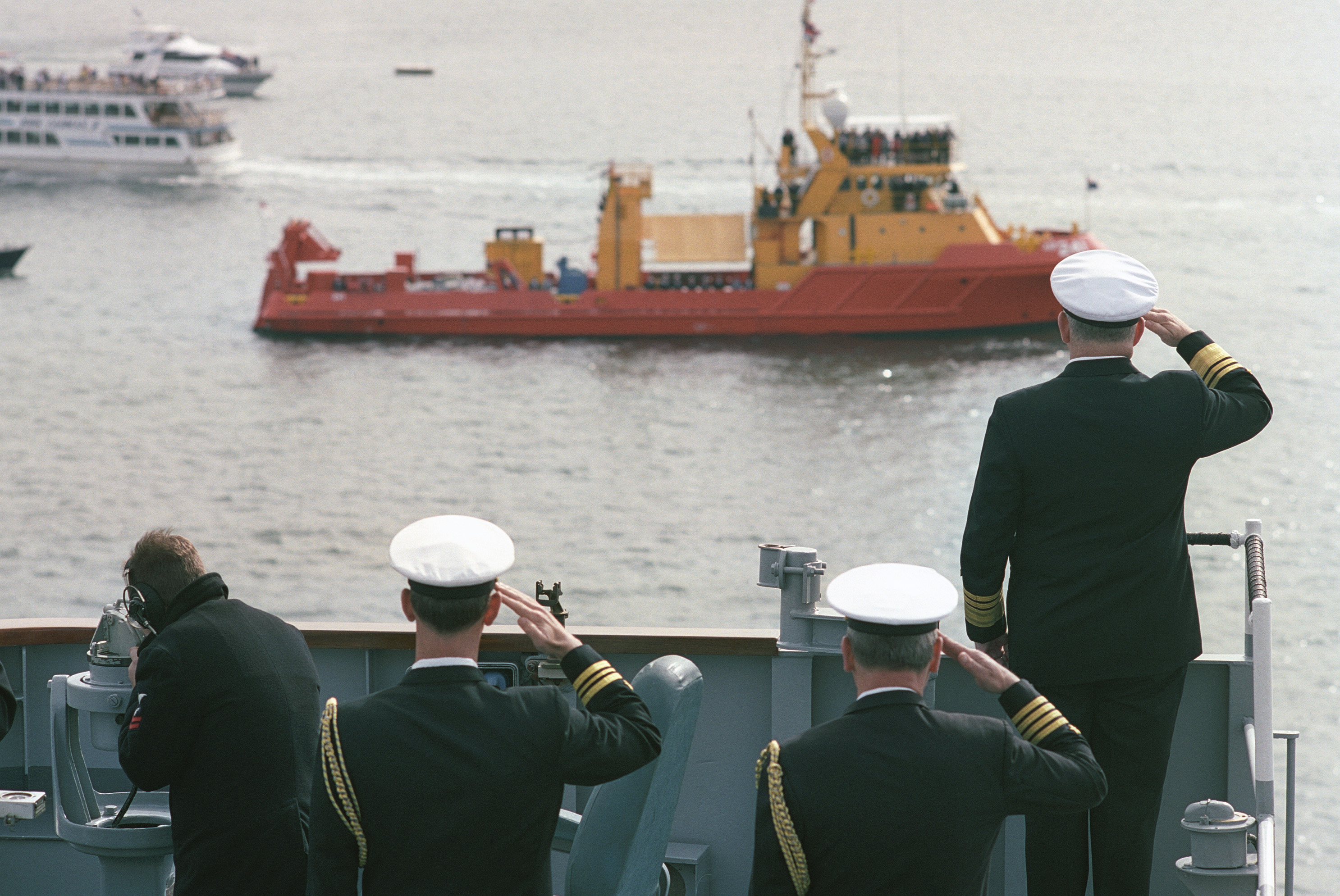 Details: ID: DNSC9600132 Service Depicted: Navy Command Shown: N0881-SCN-5/92-024 Vice Admiral Stanley Arthur, USN, Commander U.S. Seventh Fleet, salutes the Royal Australian Navy submarine rescue vessel HMAS PROTECTOR (ASR-241) as the ship passes close to the U.S. Seventh Fleet flagship USS BLUE RIDGE (LCC-19). The BLUE RIDGE is arriving in port for a visit to commemorate the 50th anniversary of the Battle of the Coral Sea. Location: SYDNEY HARBOR, NEW SOUTH WALES AUSTRALIA (AUS) Date Shot: 1 May 1992